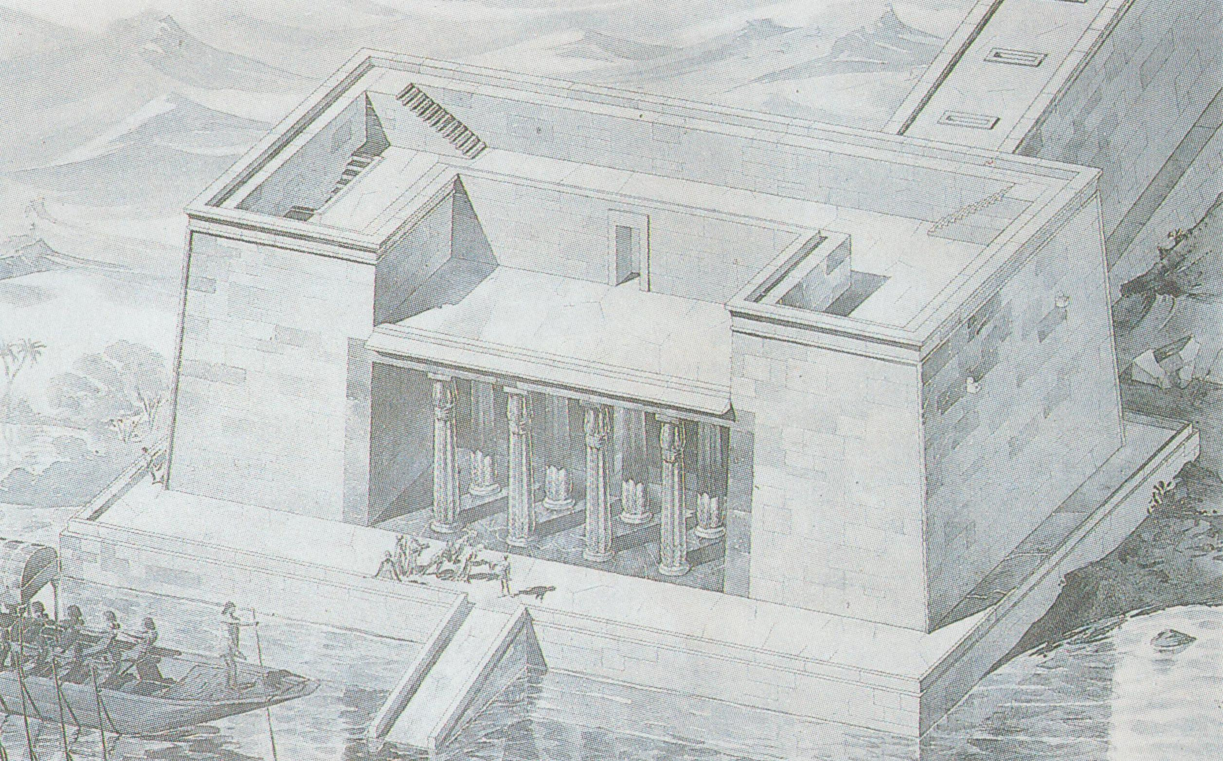 Valley Temple of Sahure